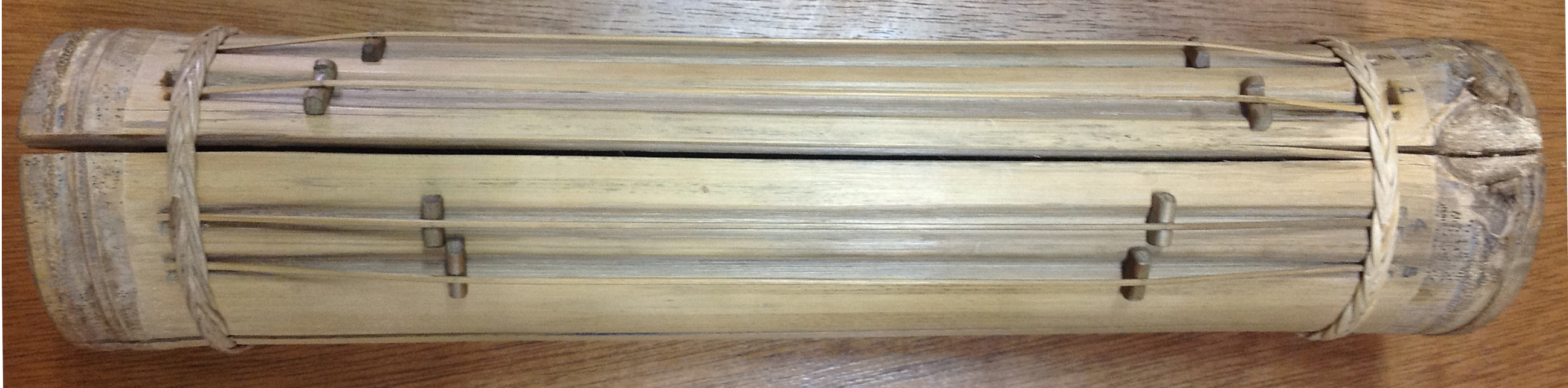 A Kolitong, a bamboo string instrument found in the Philippines. The instrument in the picture is from the University of the Philippines College of Music, Center for Ethnomusicology, Diliman, Quezon City, Philippines.